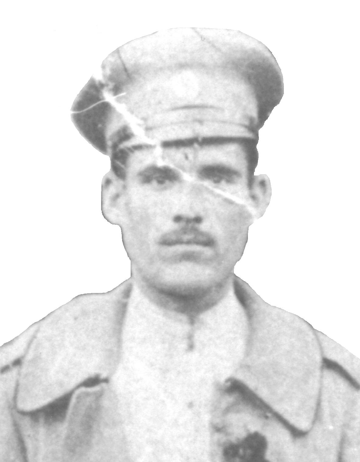 Тодор Петров Кънчев (Ненков, 1892 - 1923 г.) в ежедневно облекло.